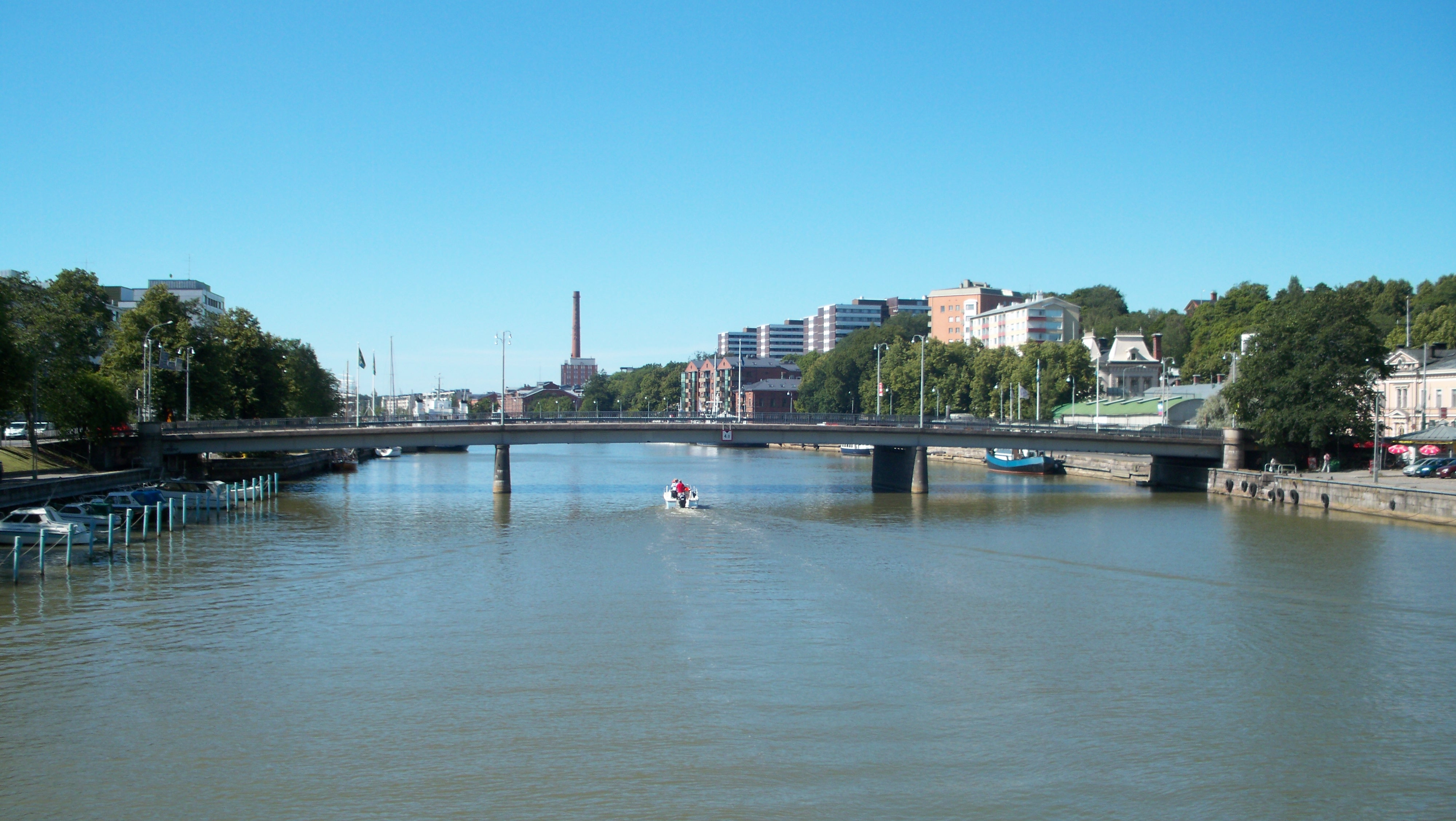 Sights of Turku, Finland